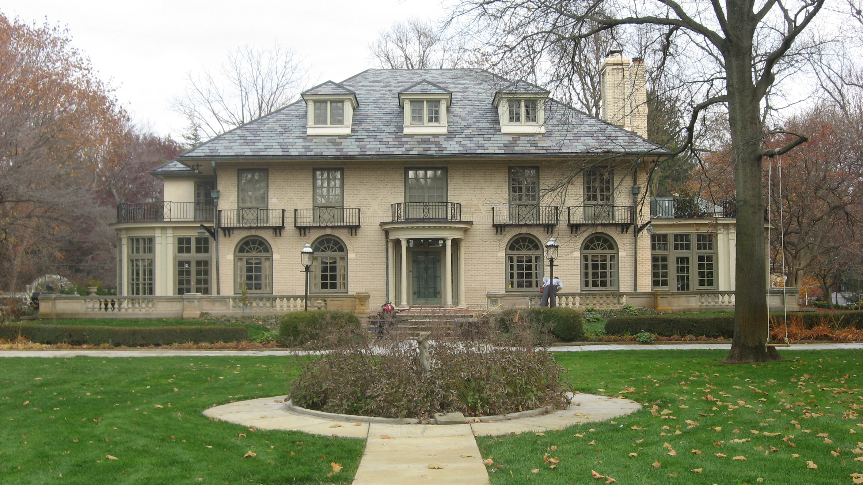 Front of the William N. Thompson House, located at 4343 N. Meridian Street in Indianapolis, Indiana, United States. Formerly the Indiana Governor's Residence, it was built in 1920. It is listed on the National Register of Historic Places, and it is a part of a Register-listed historic district, the North Meridian Street Historic District.